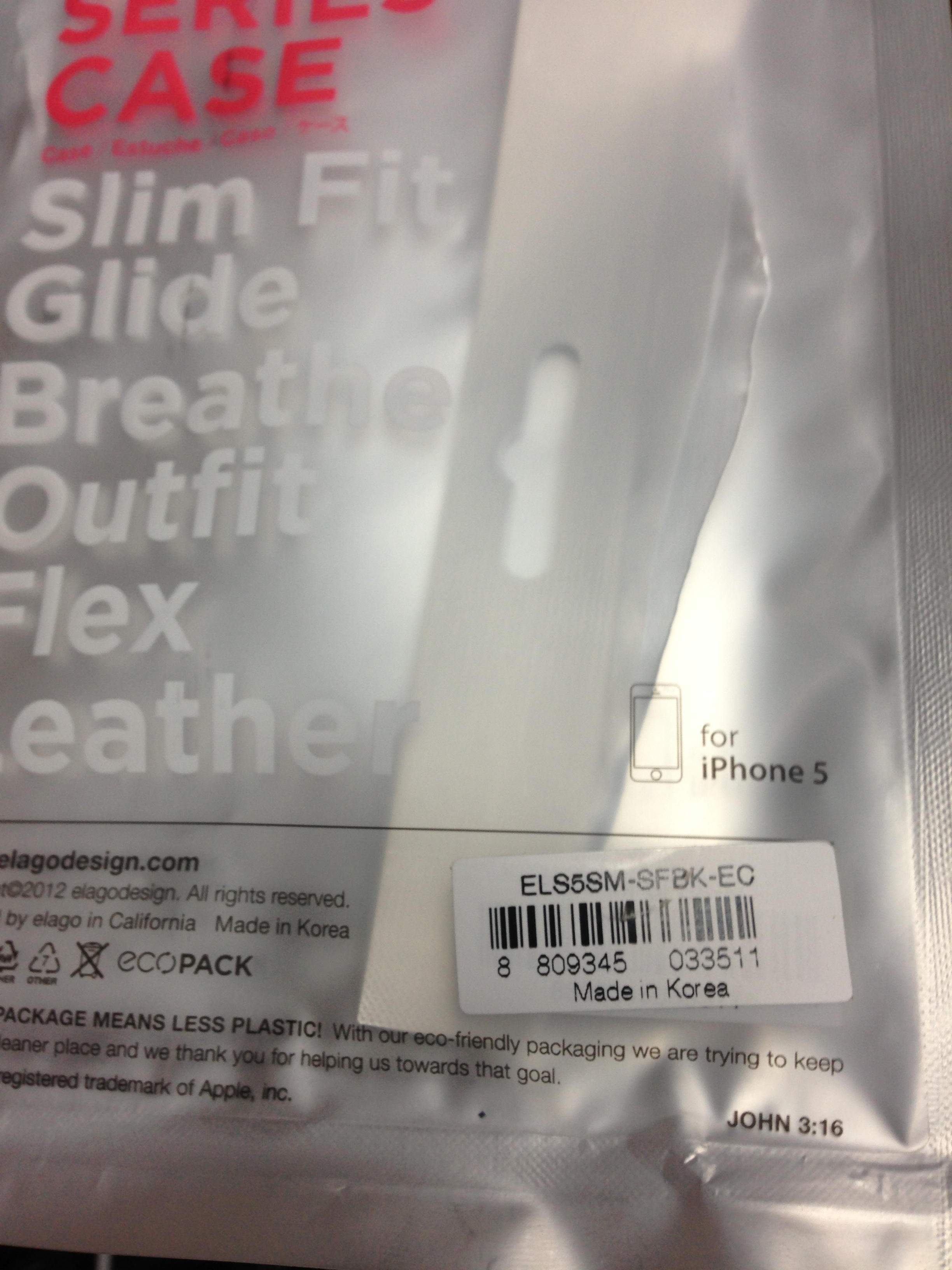 A picture of a bible reference on the bottom of a S5 Series Case bag.